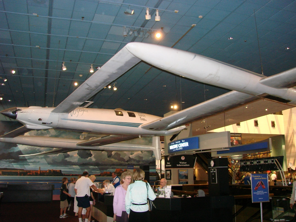 The Voyager aircraft, that peformed the first non-stop flight around the world, on display at the Smithsonian National Air and Space Museum.